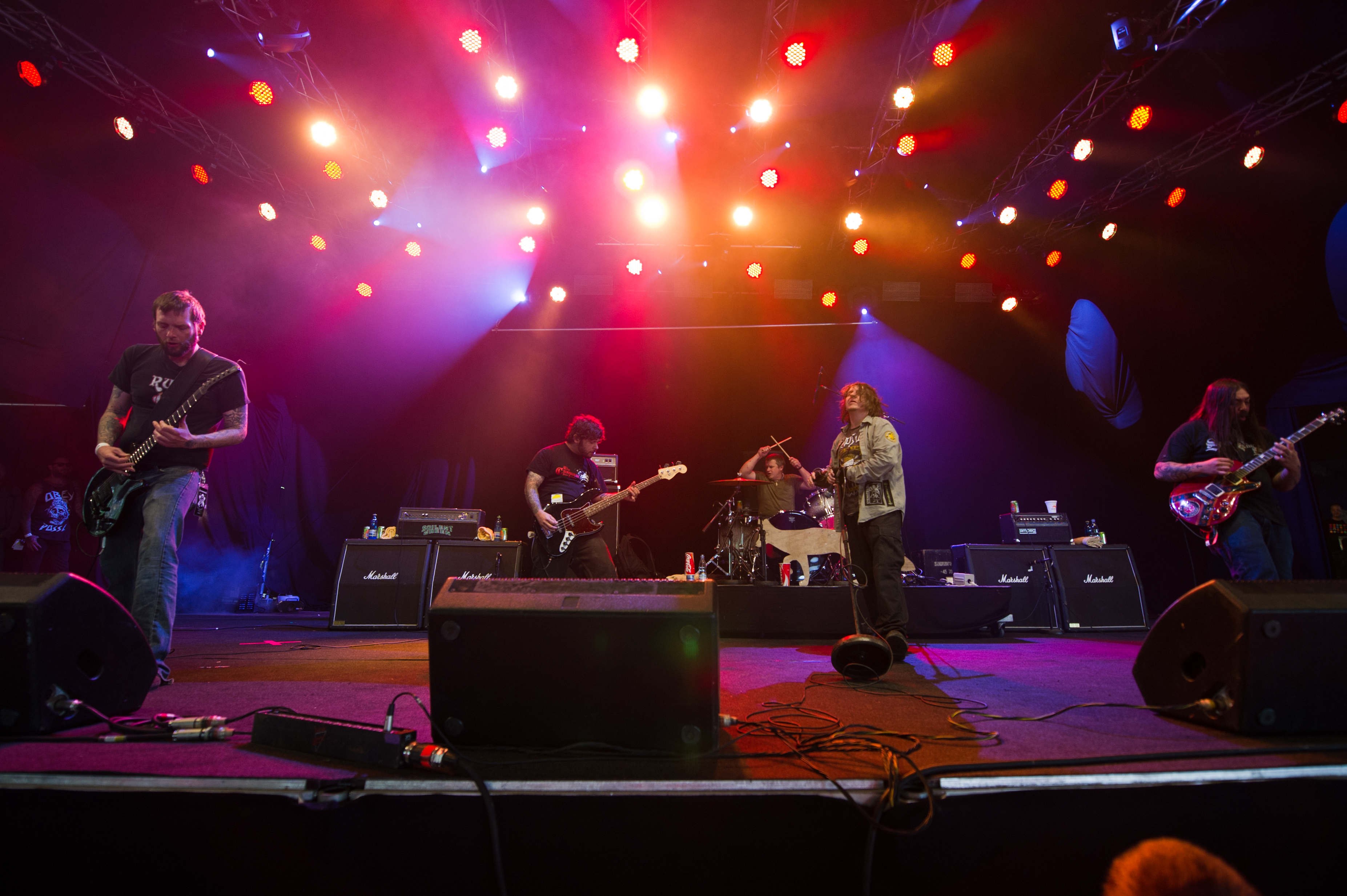 Eyehategod - Roskilde Festival 2011.